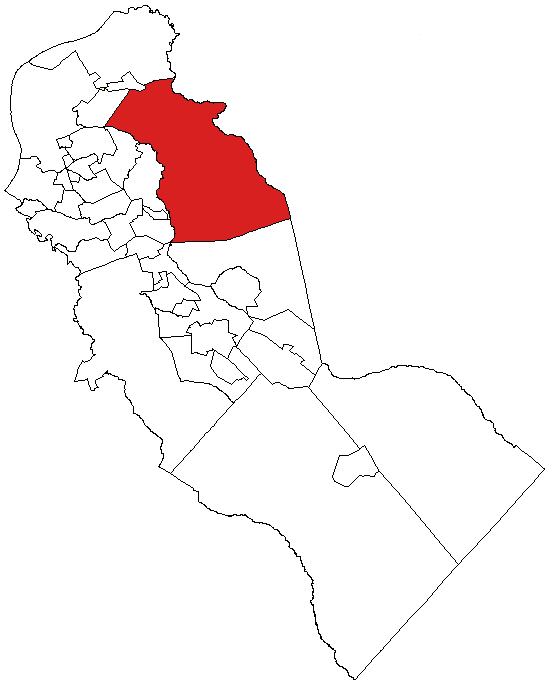 Map of Camden County highlighting Cherry Hill Township